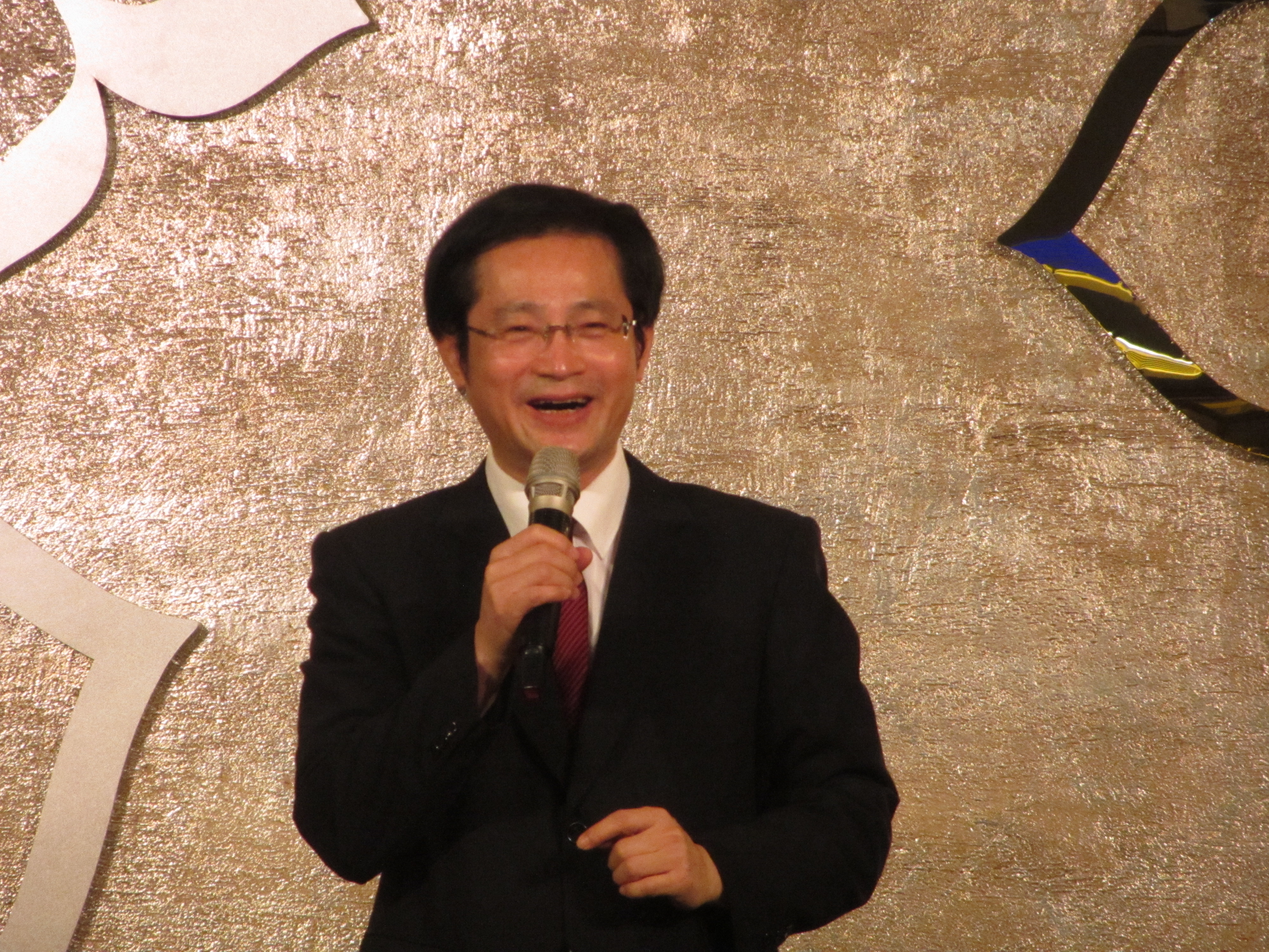 Chou Po-ya